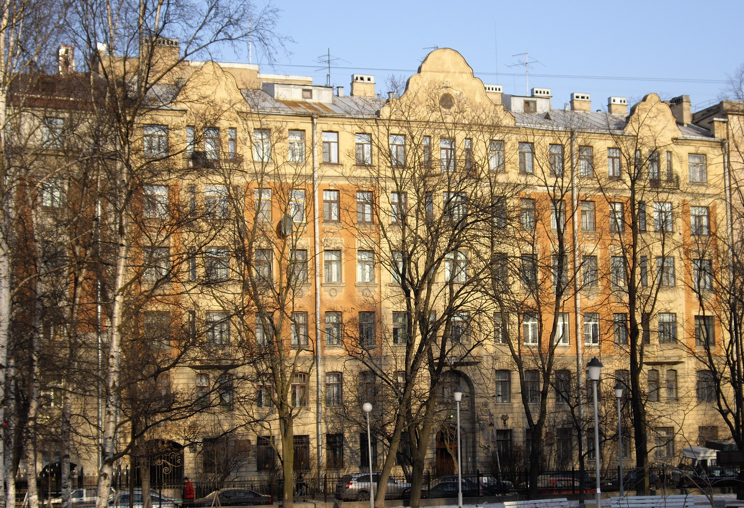 27, Kronverkskaya Street in Saint-Petersburg, architect Wilhelm (Vassili Vassilievitch) Schaub, 1911.